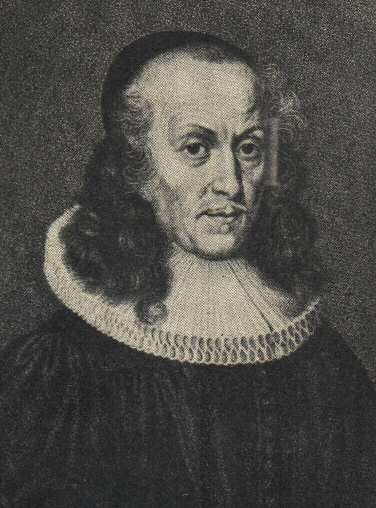 (PD by age).